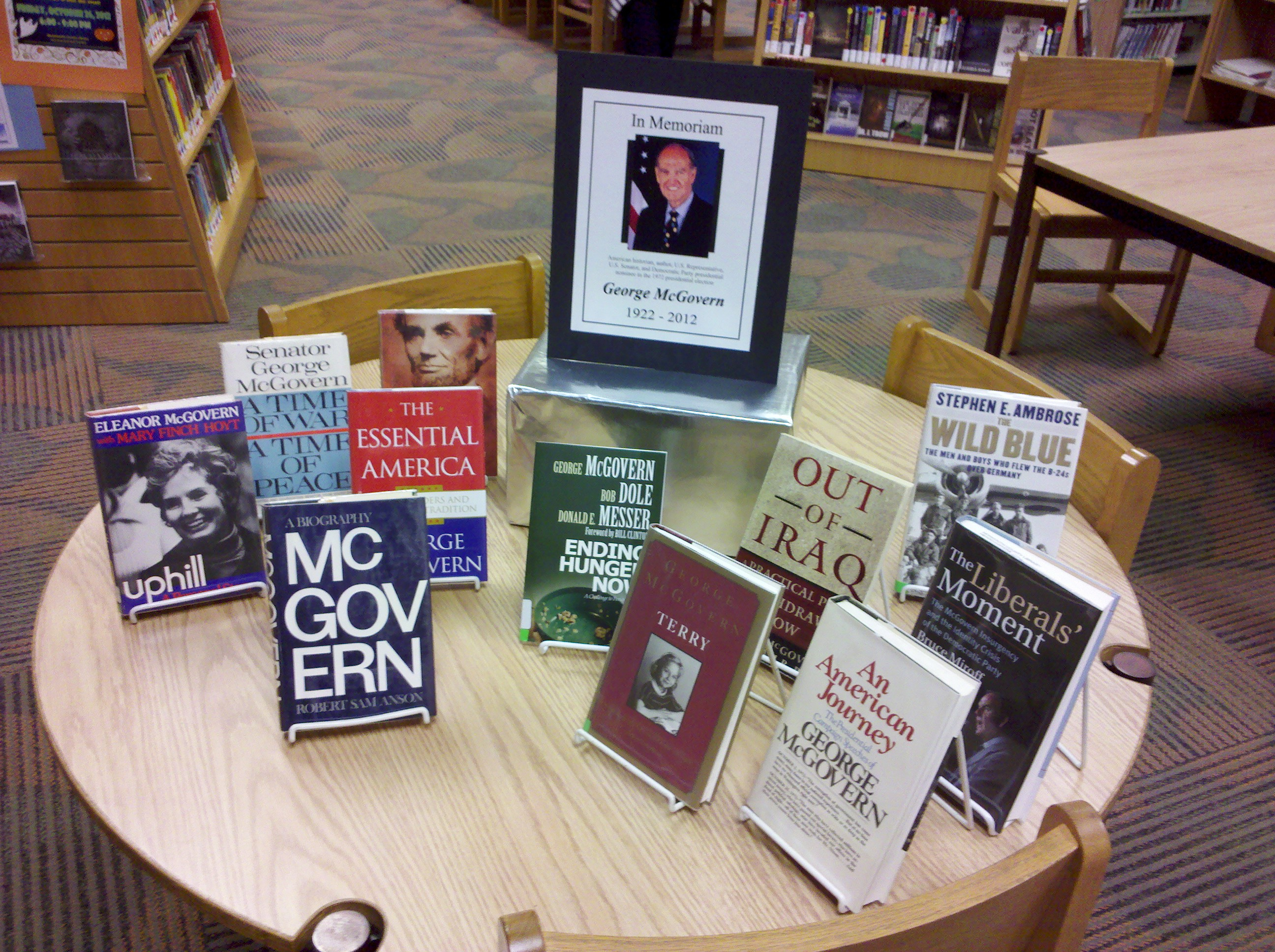 A collection of books by and about George McGovern, and a brief biography, displayed at the Monmouth County Library System headquarters library in Manalapan, New Jersey, following McGovern's death in October 2012.